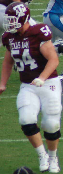 McGee running for the 1st.